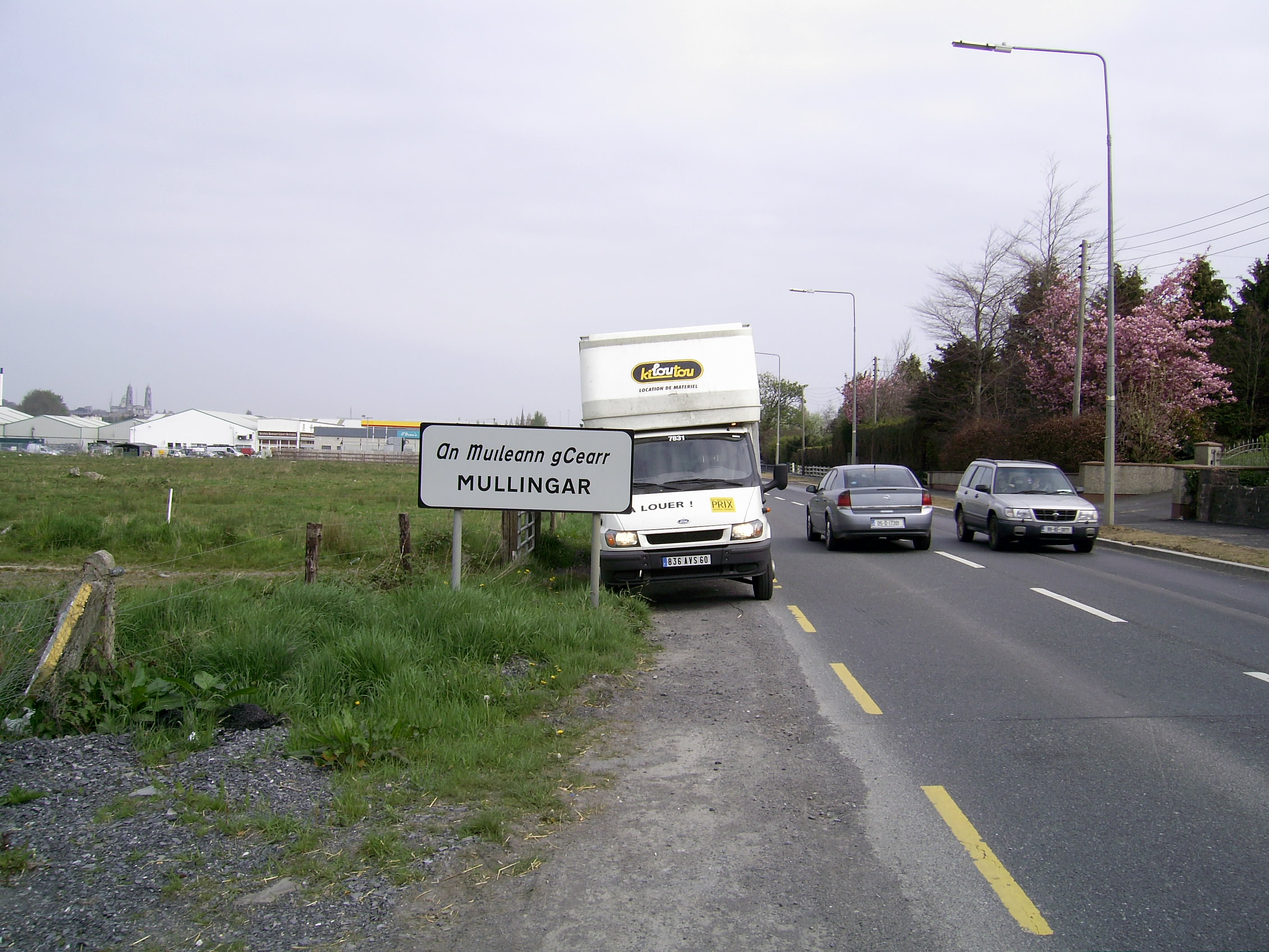 Ville prefecture de Westmeath. Paneau de Mullingar Westmeath